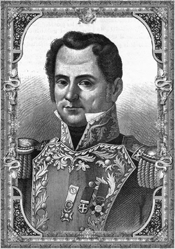 Self-portrait of Anastasio Bustamante y Oseguera, Lithograph (1870-1907).